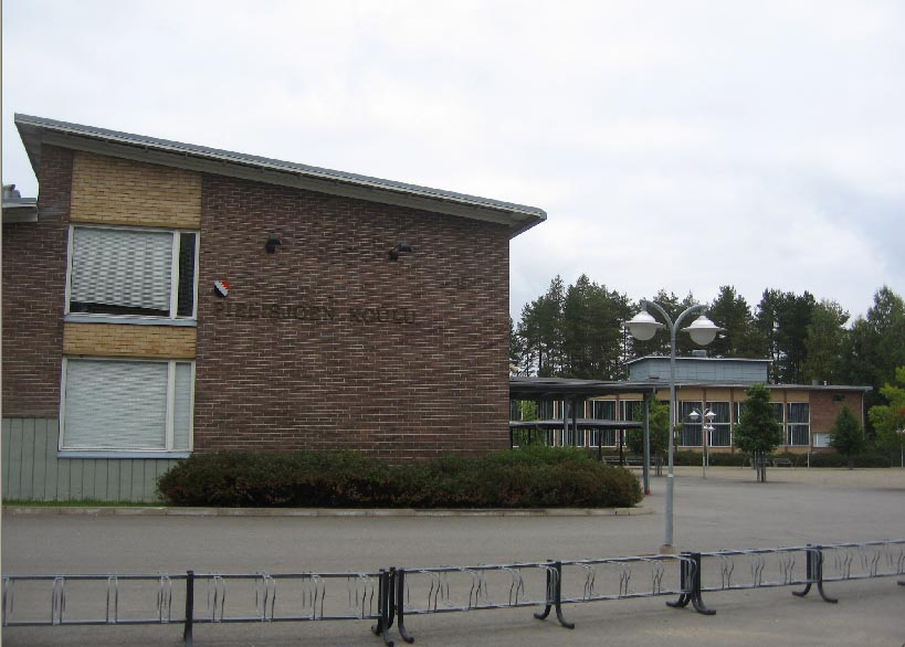 Pielisjoen koulu, school in Joensuu